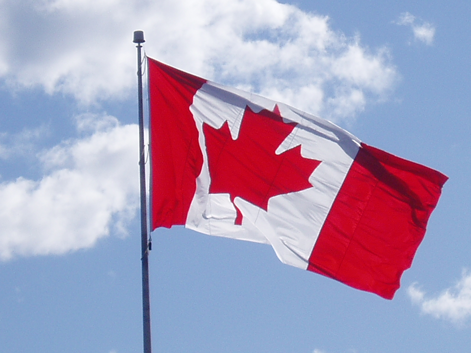 along the Halifax waterfront (July 1 2007)